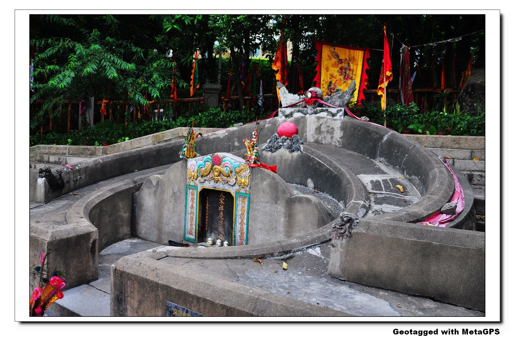 Cenotaph of Emperor Bing of Song in Chiwan (Chik Wan), Shenzhen (Shumchun), Guangdong (Kwangtung)